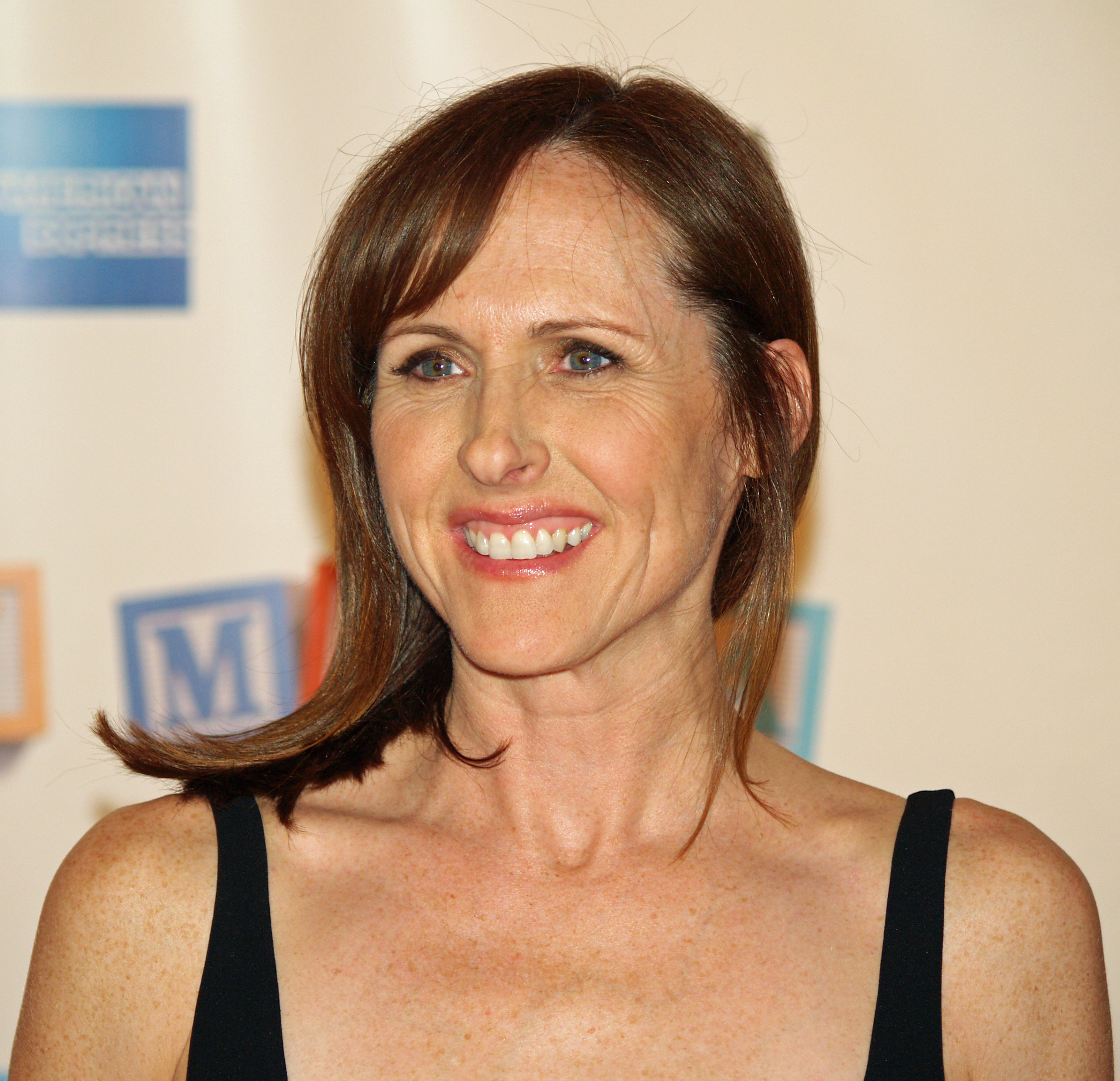 Molly Shannon at the premiere of Baby Mama at the 2008 Tribeca Film Festival.